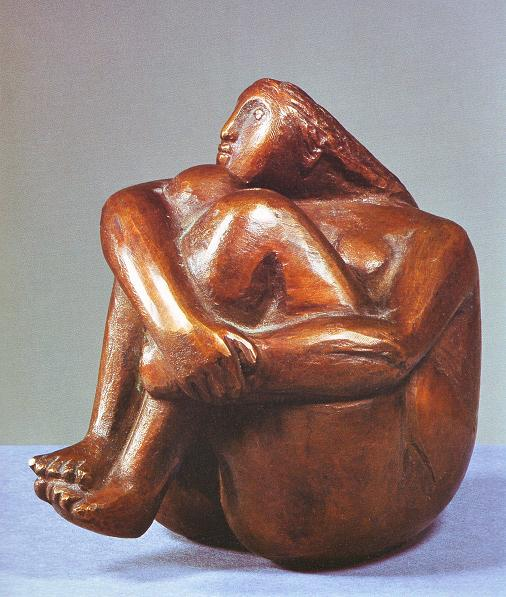 Sculpture „Kleiner Balanceakt“, created by the sculptress Katharina Szelinski-Singer in 1974, bronze, 15 x 10 x 15 cm